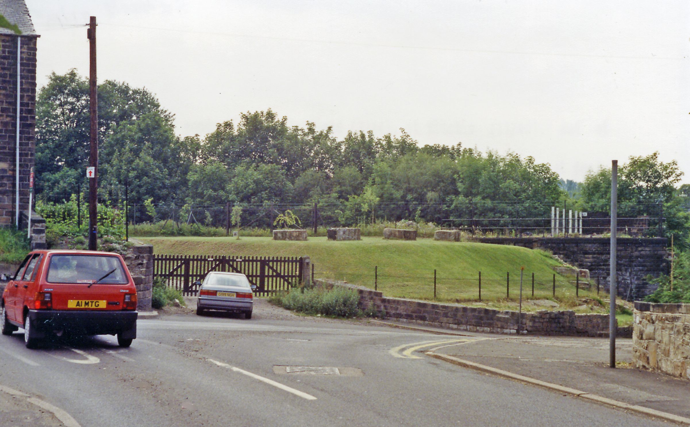 Site of former Darfield station. View SW, across the site of the station and the disused ex-Midland four-track main line from Sheffield and Rotherham (to left) to Normanton and Leeds (to right). The station was closed 17/6/63, while from 1/1/68 all passenger trains were diverted off the route between Wath Road Junction and Goose Hill Junction (Normanton) owing to colliery subsidences, although freight trains were still worked over it for several more years.